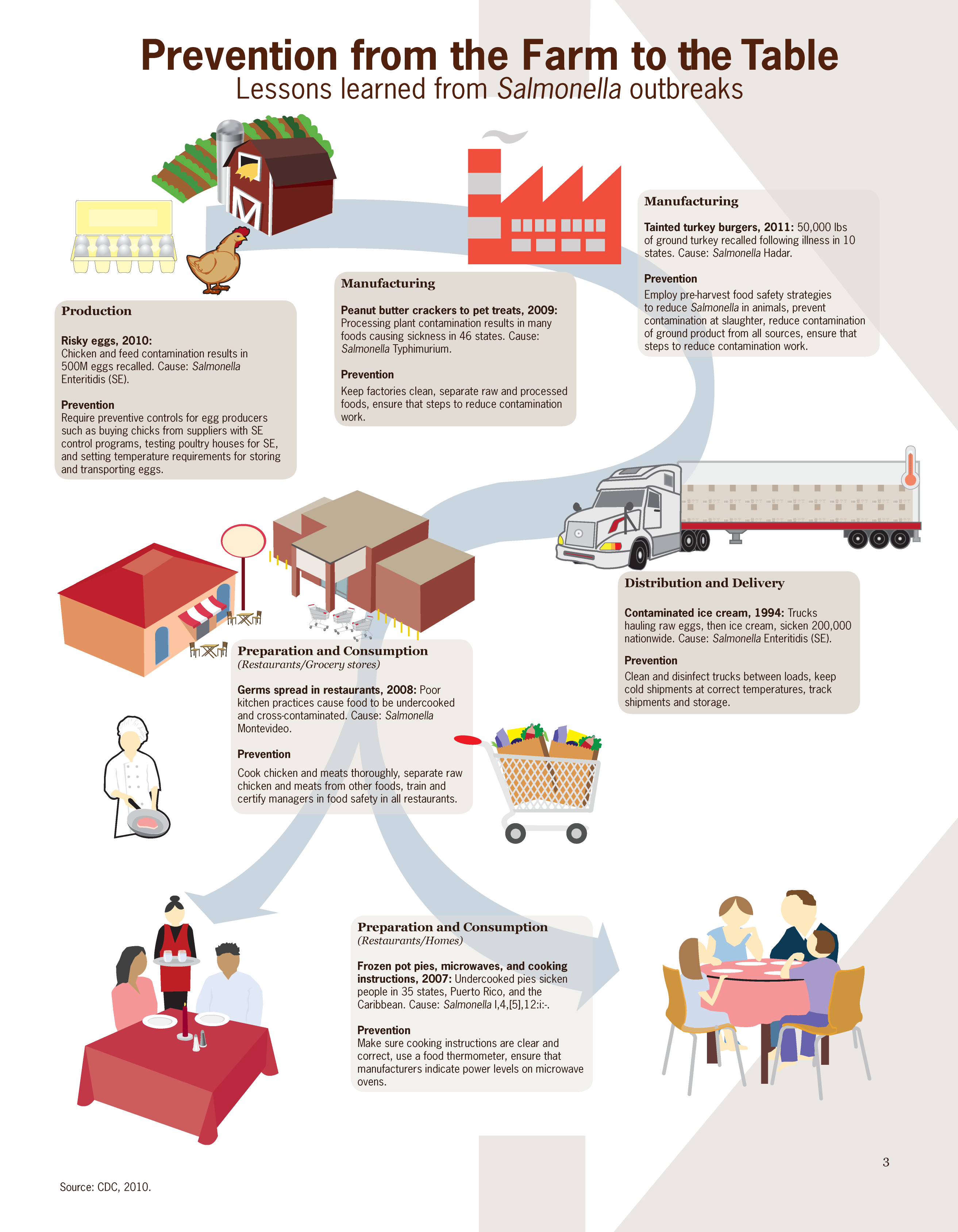 Prevention of Salmonella from the farm to table infographic